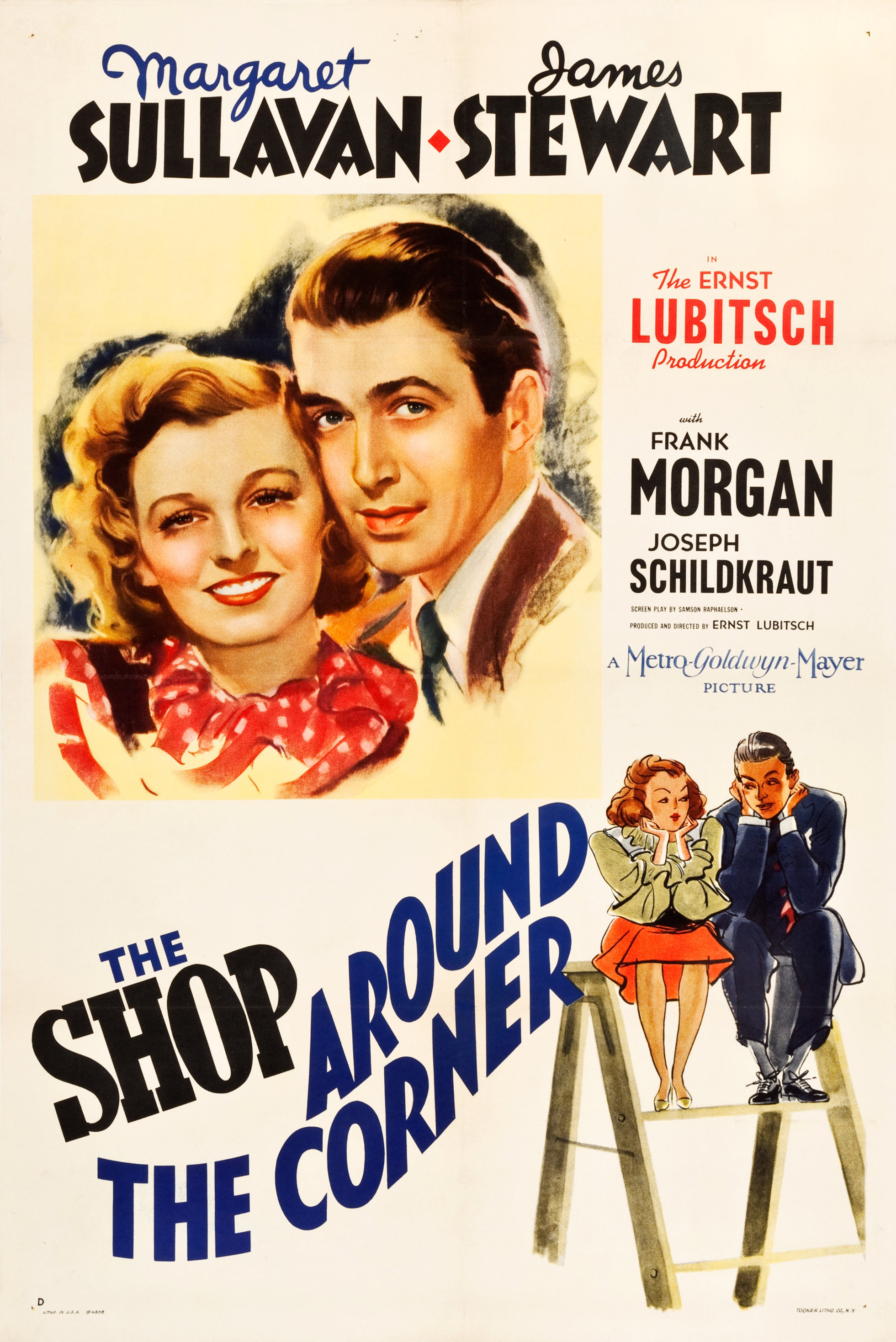 "Style D" poster for the theatrical run of the 1940 American film The Shop Around the Corner.